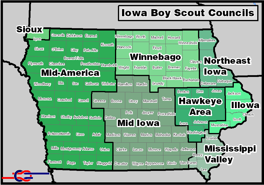 Iowa BSA Councils - Map created using boundary information publicized by the relevant BSA councils. US Census TIGER data used for county and state lines. Council divisions are exact where they coincide with county lines and approximate in other areas. All councils on this map are in the central region.